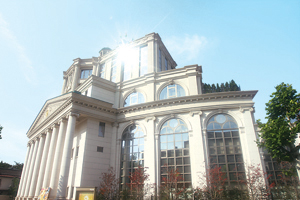 Tokyo Shoshinkan